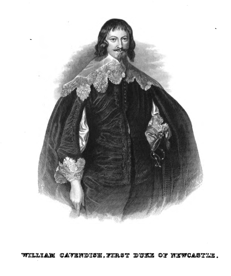 William Cavendish